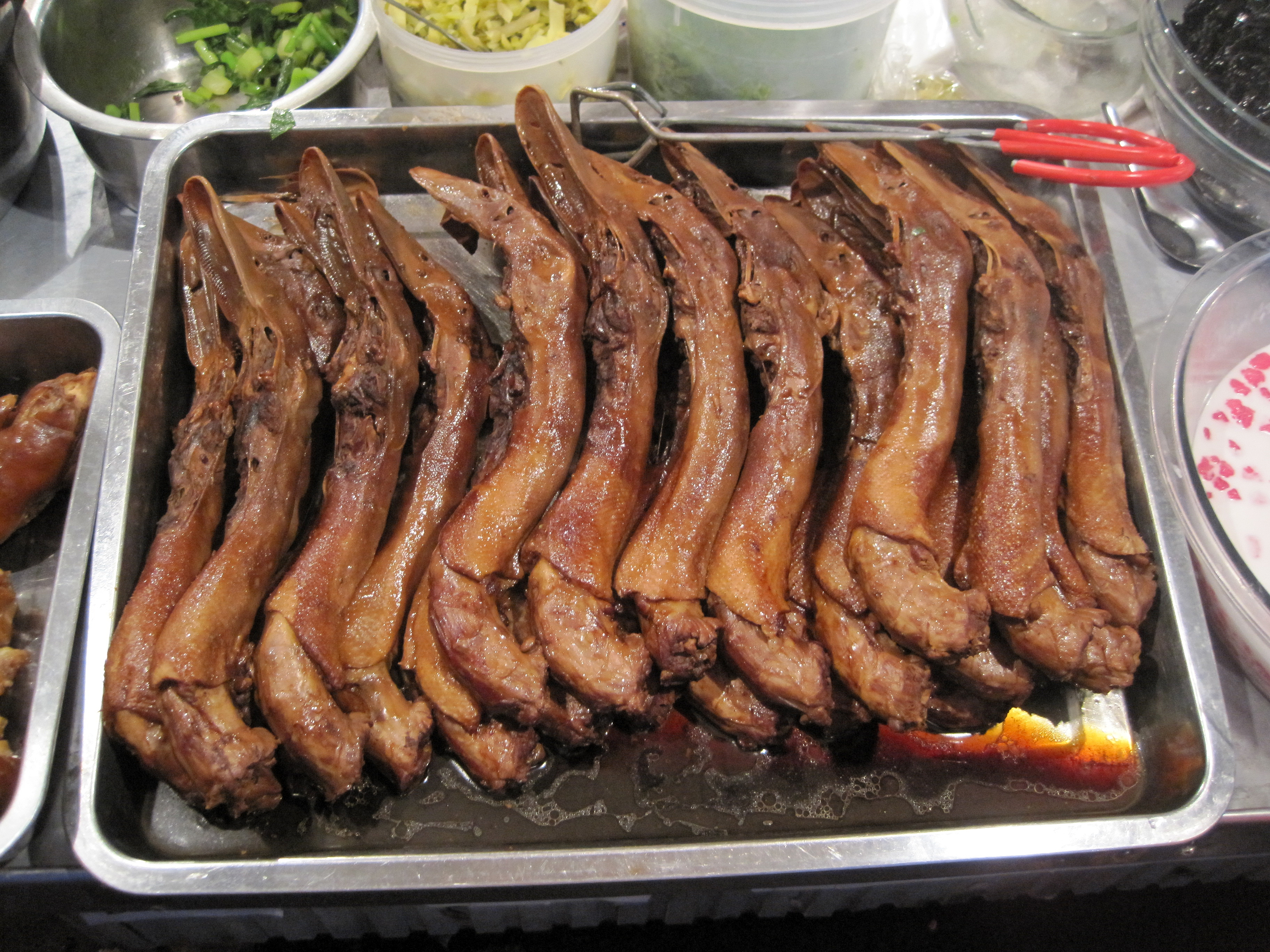 Duck heads